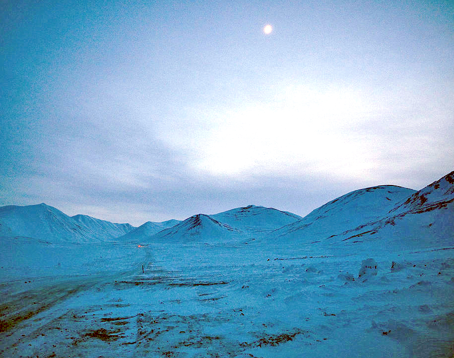 Winter road (partly an ice road) between Kupol and Pevek Russia.